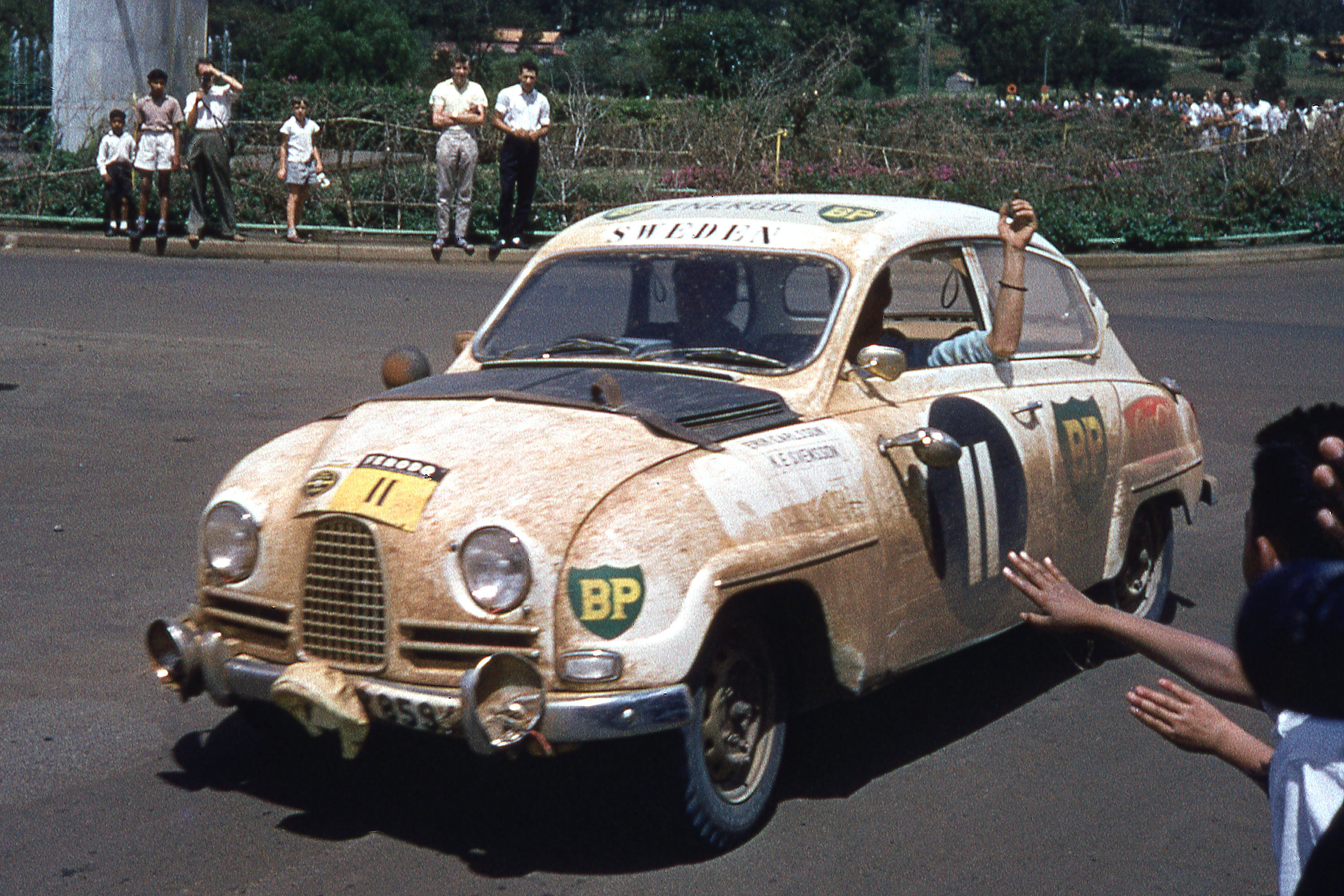 Swedish rally driver Erik "Carlsson on the roof" Carlsson driving through the streets of Nairobi, Kenya. He took part in the 10th East African Safari Rally with his Saab 96.